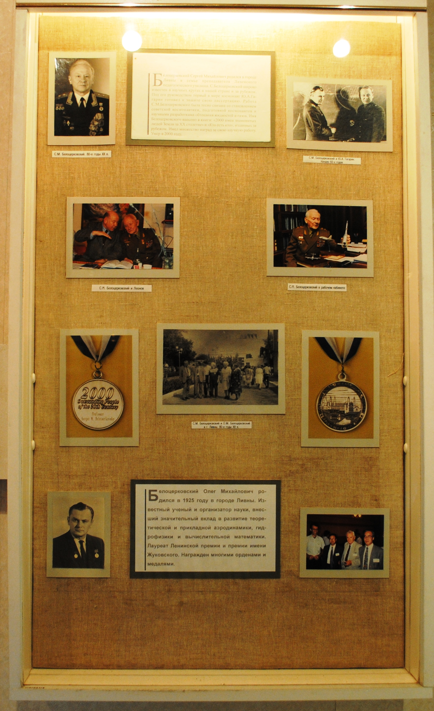 BrBelocer